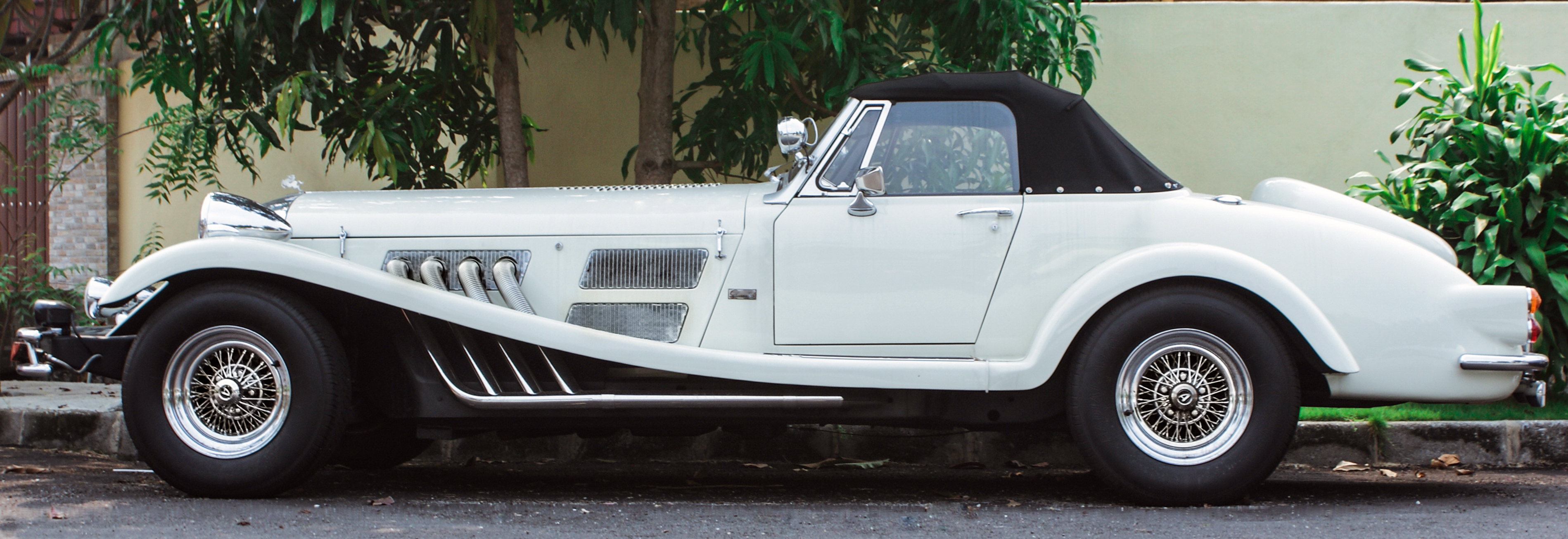 A 1981 Desande Roadster, car number 8 of 250 built. 155hp 305ci Chevrolet V8 engine and a three-speed slushbox, belonging to some sort of Selangor royalty in Malaysia when the photo was taken. They brought in the car in 1986.